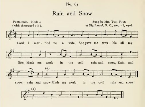 Rain and Snow by Cecil Sharp and Olive Dame Campbell., from English Folk Songs from the Southern Appalachians (New York: Putnam, 1917)